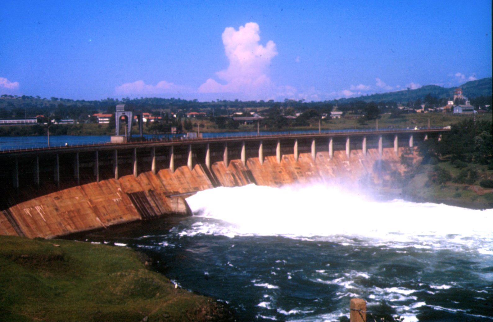 Owen Falls Dam - Jinja - 1971.